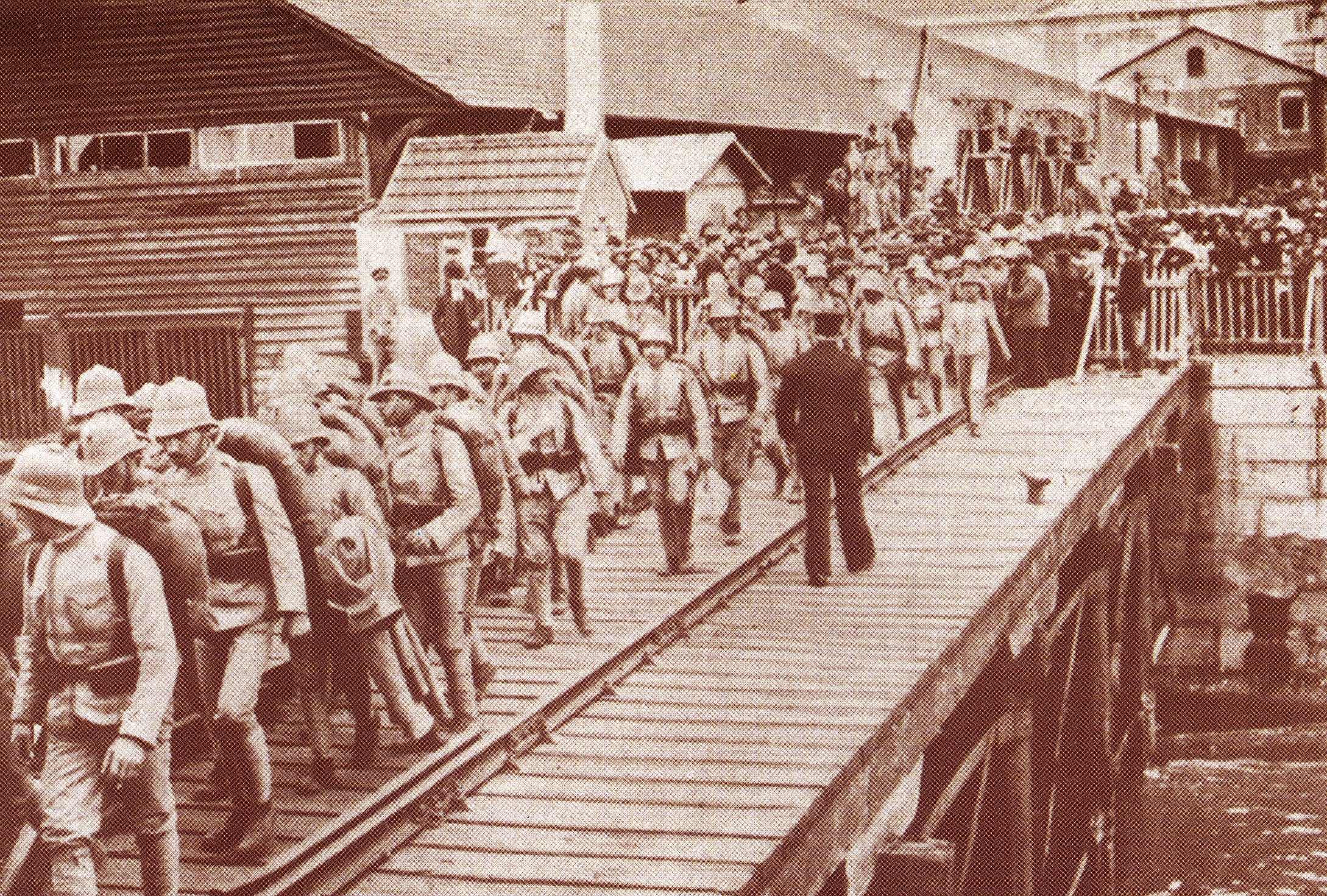 Portuguese troops heading for Angola, during World War I.